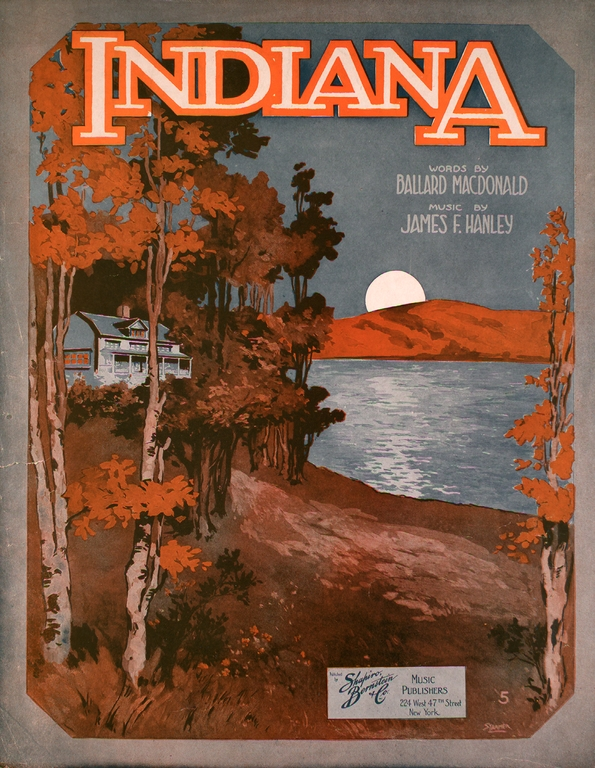 "Indiana". 1917 sheet music cover. The song & tune sometimes better known as "Home Again in Indiana" or "Back Home Again in Indiana".